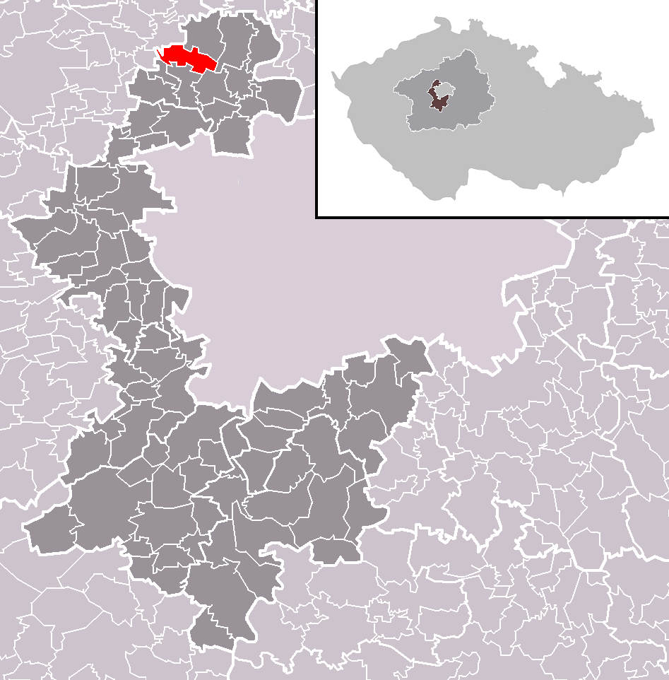 Location of Svrkyně municipality within Prague-West District and administrative area of Černošice as a Municipality with Extended Competence.